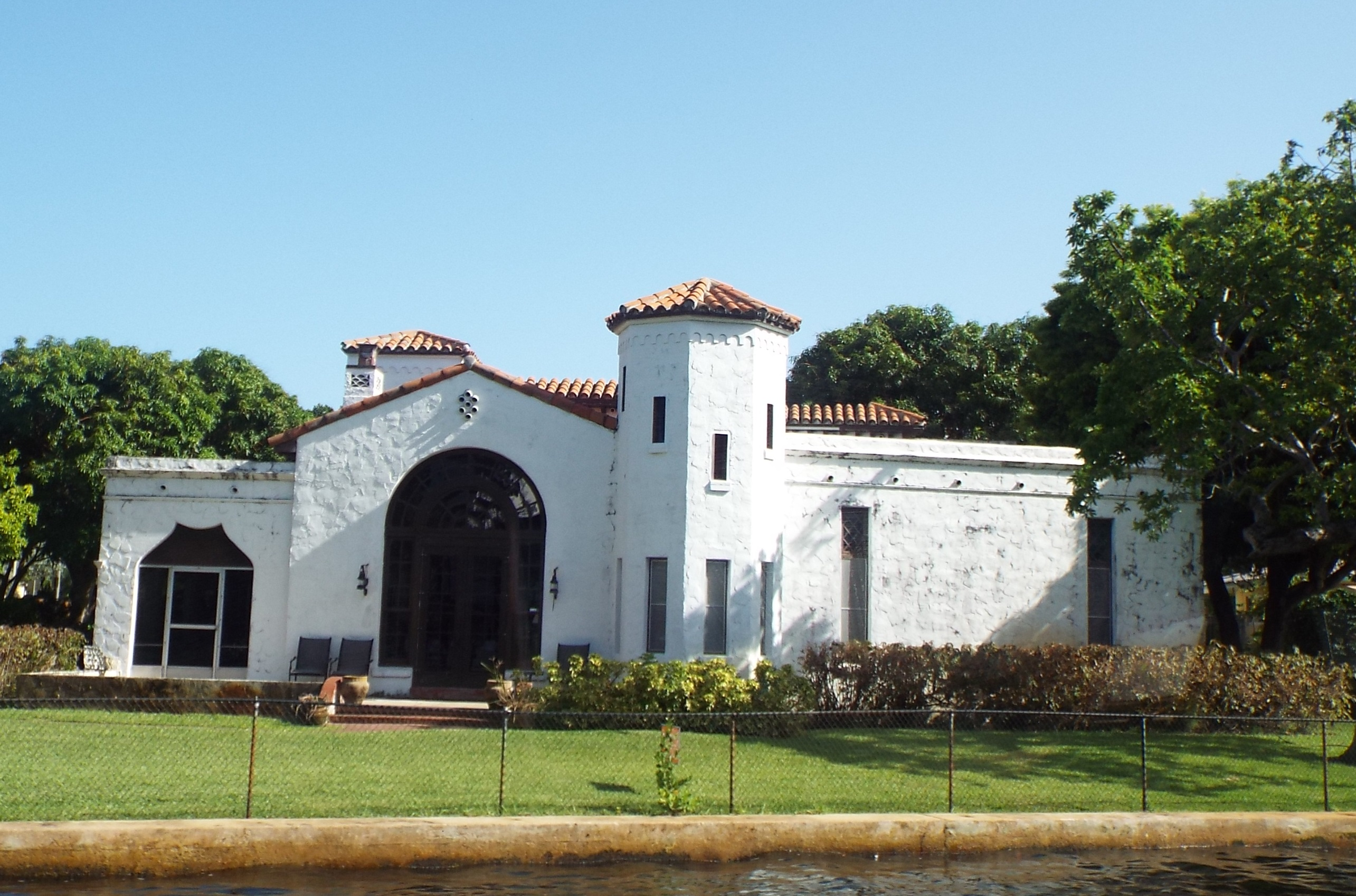 The E.N. Sperry House located in Fort Lauderdale, Florida, along the riverside of New River. This is often called the residence of the infamous mobster known as Bugsy Seigel but there is no evidence that he was ever in Ft Lauderdale. * see discussion tab.